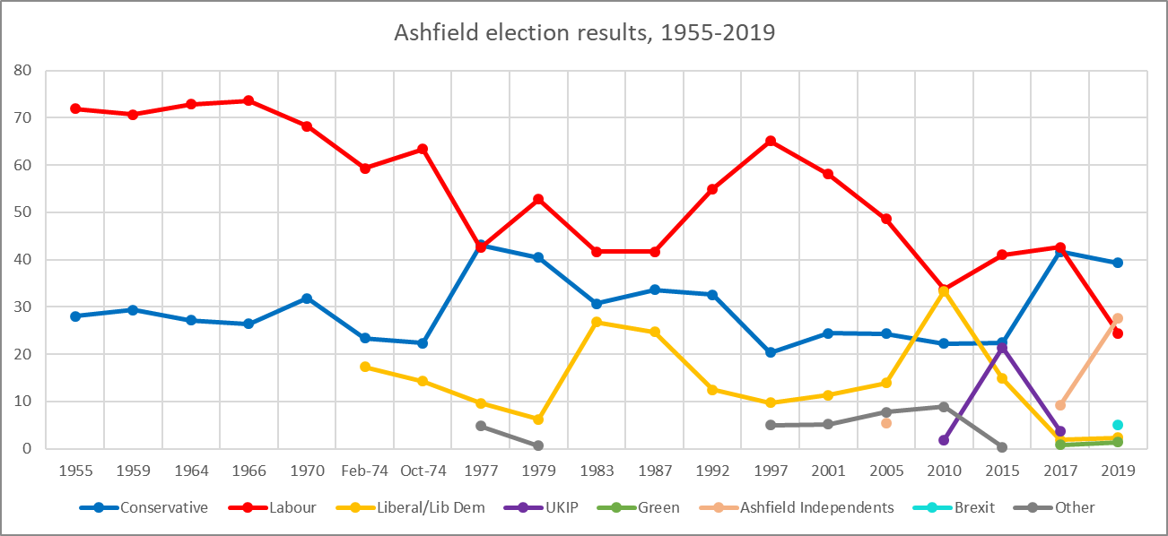 Graph showing election results for Ashfield Constituency.